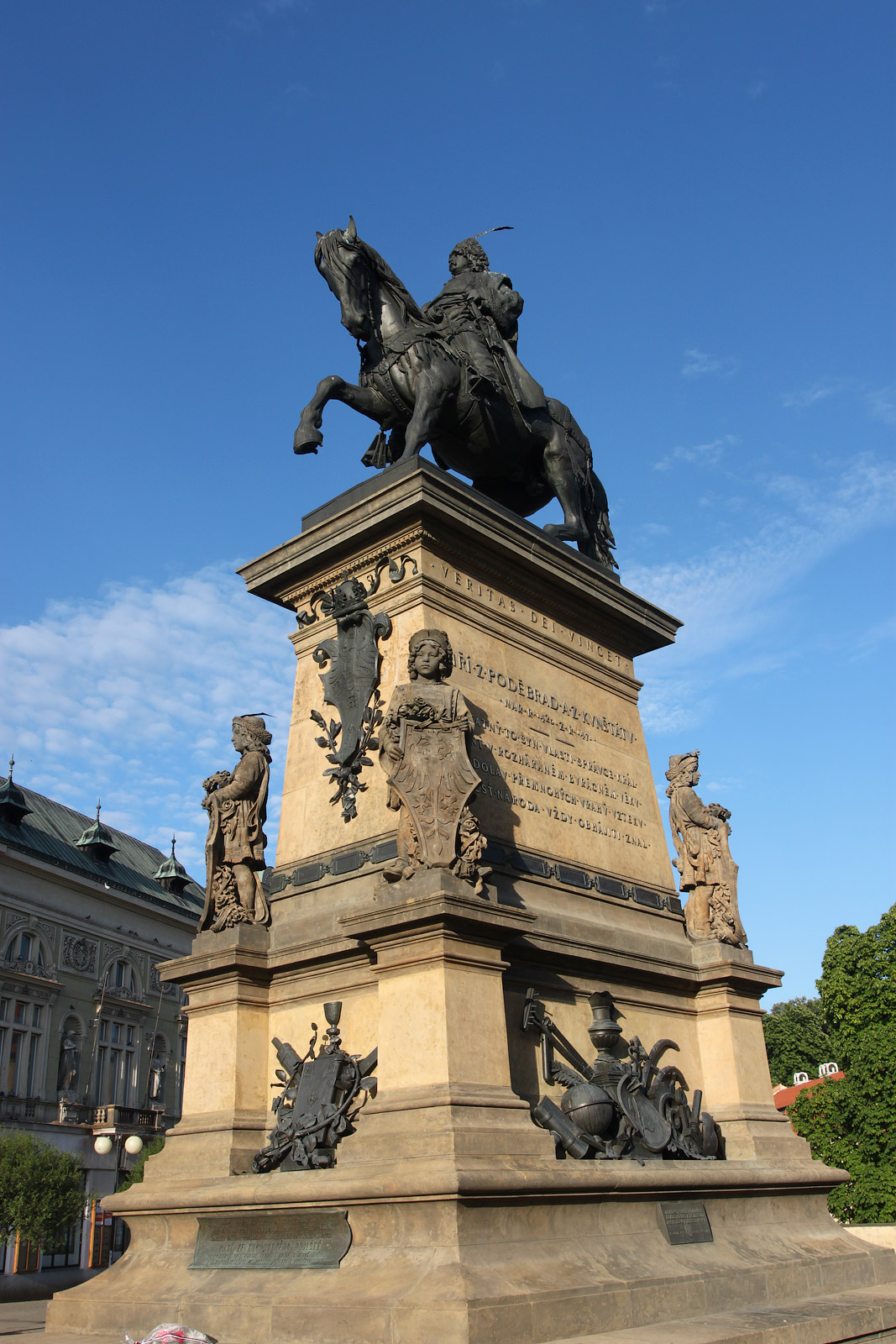 Jiri z Podebrad monument